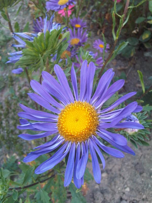 China Aster (Callistephus chinensis) flower in Lónyaytelep (Lonea), Transylvania.